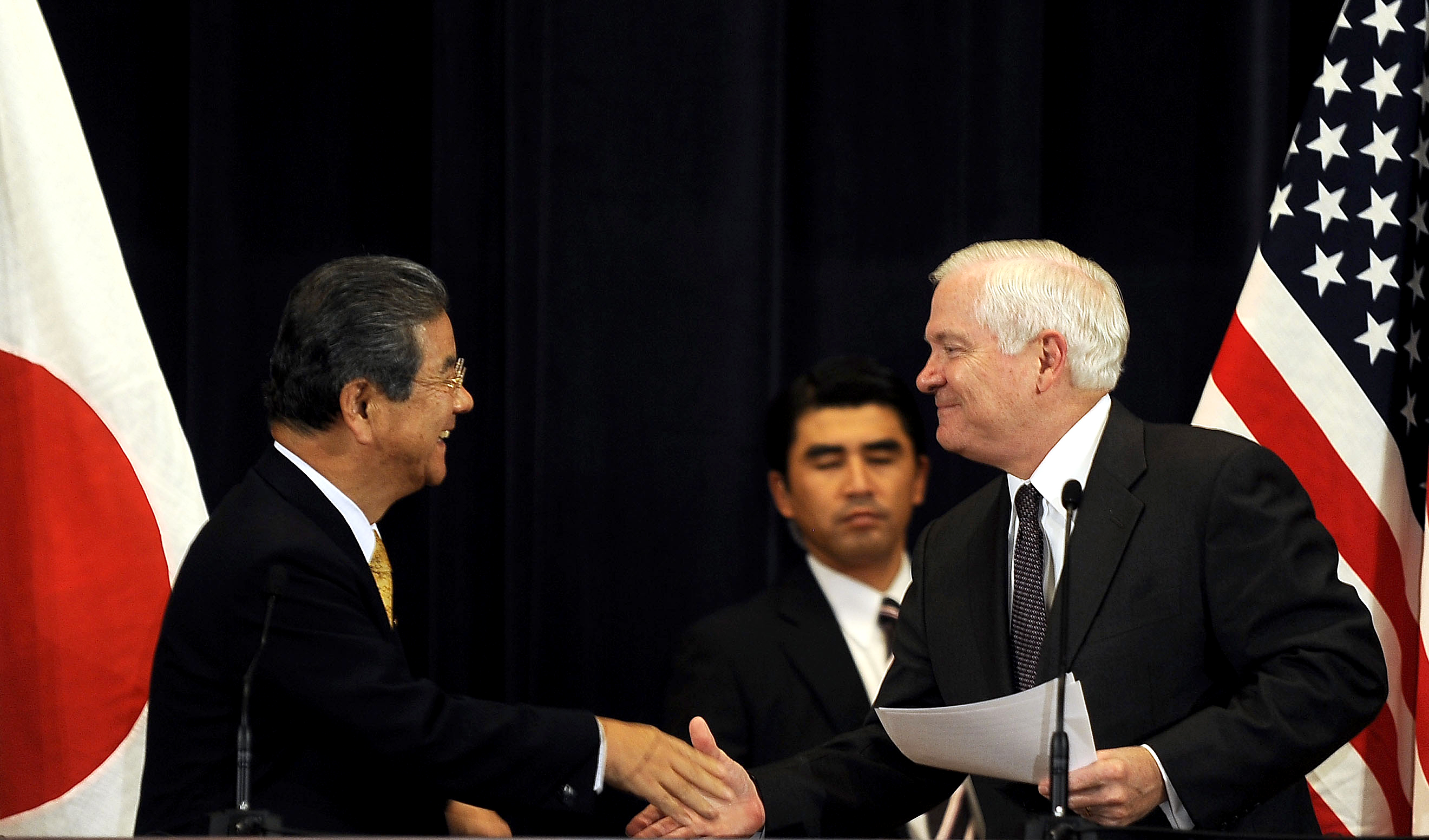 Robert Gates, Secretary of Defense, shaked hands with Toshimi Kitazawa, Minister of Defense, at the Ministry of Defense in Shinjuku Ward, Tōkyō Metropolis on October 21, 2009.